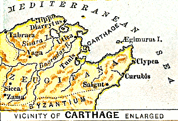 Cropped section of image containing maps of the ancient world, public domain. Scanned by WMF intern Mitch Hoffman, uploaded by Bastique, and cropped by Editor at Large